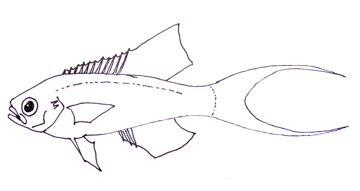 A drawing of the parrot seaperch (Callanthias ruber).